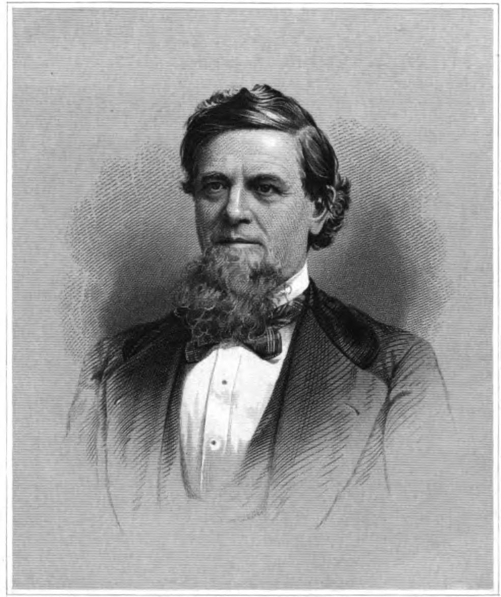 Jonathan T. Updegraff Ohio politician.